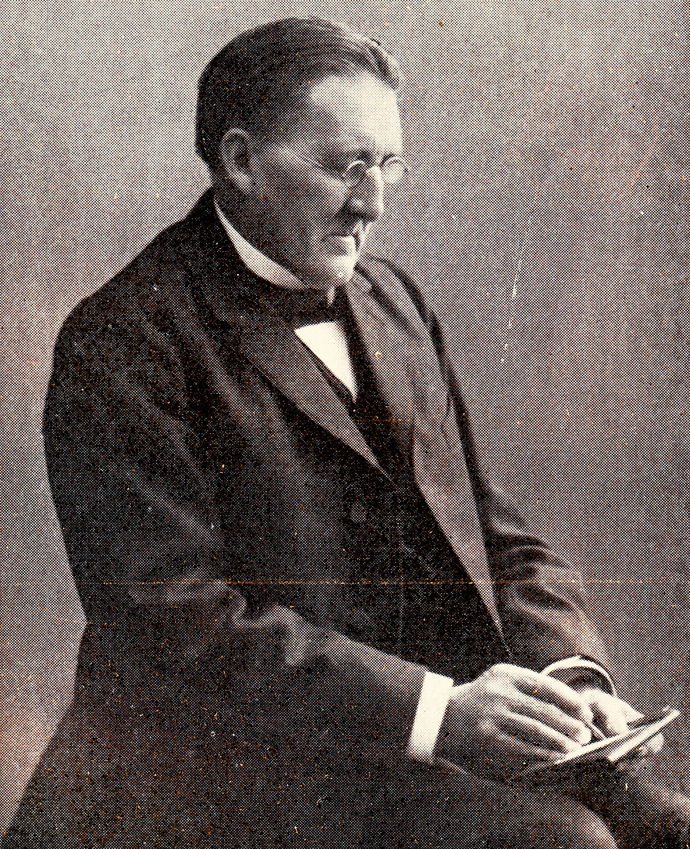 Ds. Jacobus Cornelis van Slee